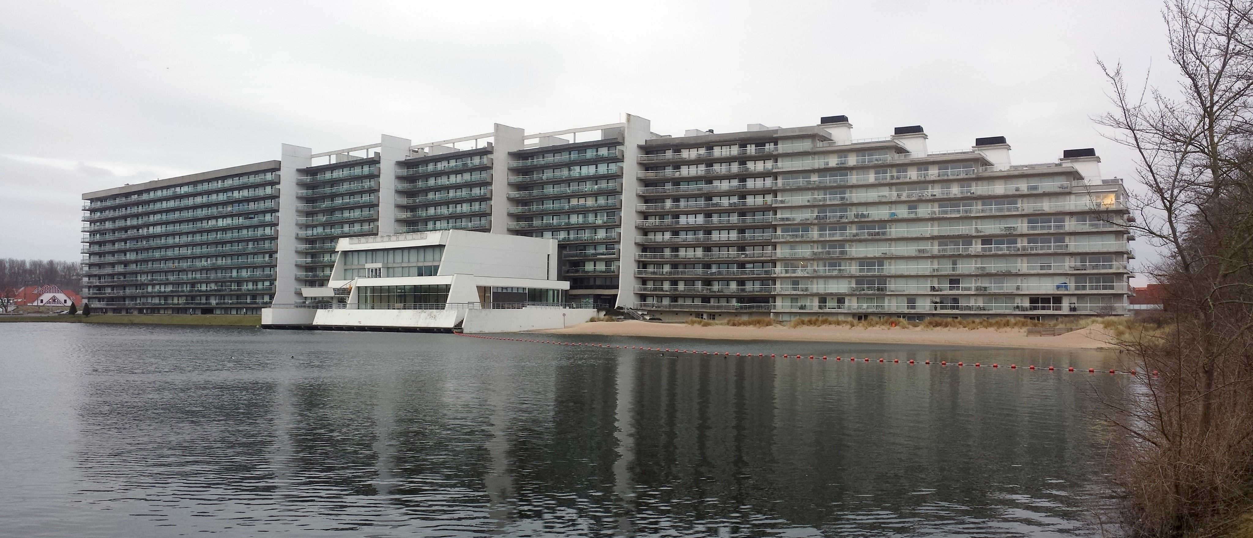 'Laguna Beach' Residence and 'Humorhall' (Krommedijk, 8300 Knokke-Heist, Belgium) seen from Heist Lake